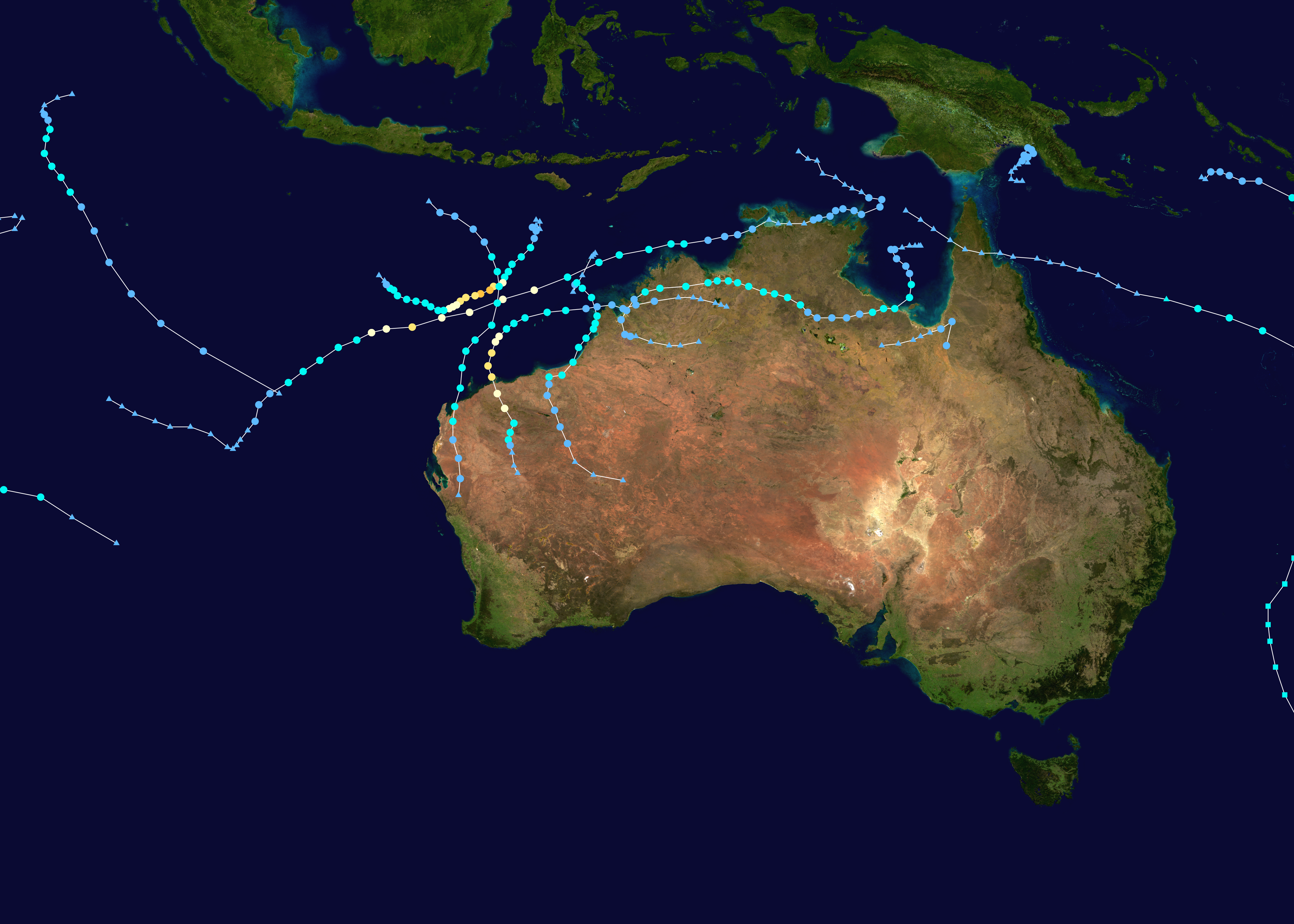 This map shows the tracks of all tropical cyclones in the 2019-20 Australian region cyclone season. The points show the location of each storm at 6-hour intervals. The colour represents the storm's maximum sustained wind speeds as classified in the Saffir-Simpson Hurricane Scale (see below), and the shape of the data points represent the type of the storm. Map generation parameters: --res 4000 --extra 1 --dots 0.2 --lines 0.04 --xmax 160 --xmin 90 --ymax 0 --ymin -50 Saffir–Simpson scale Tropical depression≤38 mph≤62 km/h Category 3111–129 mph178–208 km/h Tropical storm39–73 mph63–118 km/h Category 4130–156 mph209–251 km/h Category 174–95 mph119–153 km/h Category 5≥157 mph≥252 km/h Category 296–110 mph154–177 km/h Unknown Storm type Tropical cyclone Subtropical cyclone Extratropical cyclone / Remnant low / Tropical disturbance / Monsoon depression